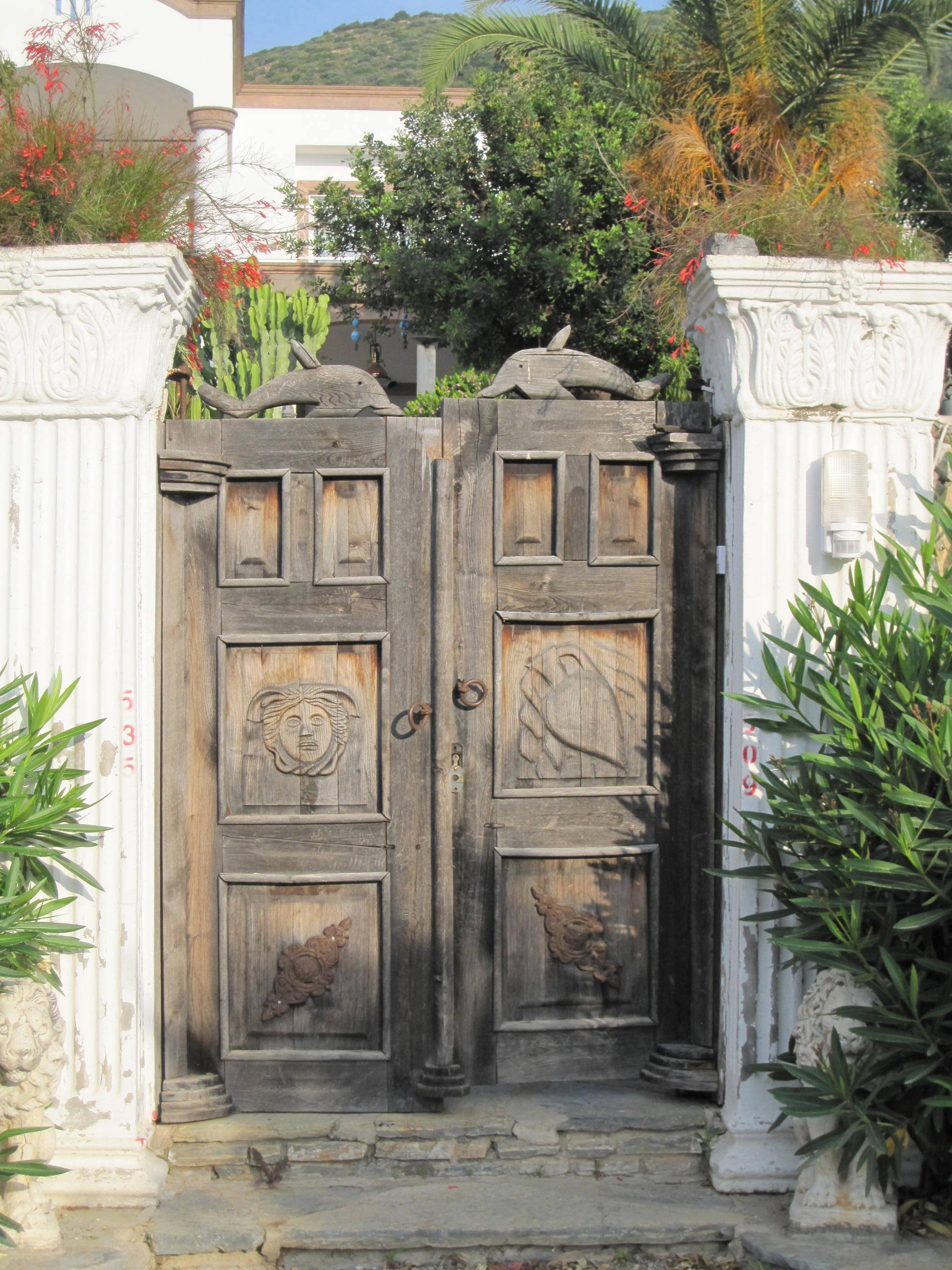 Carved gate